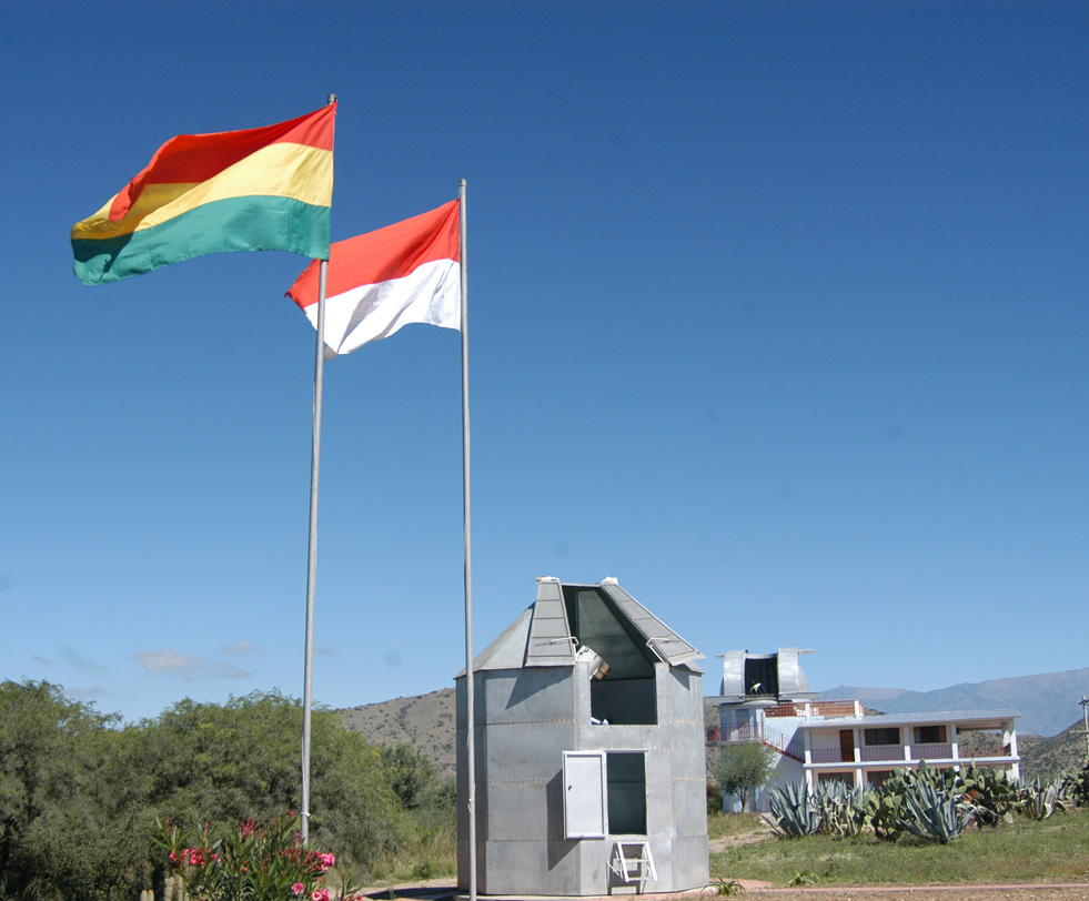 Tarija astronomy observatory